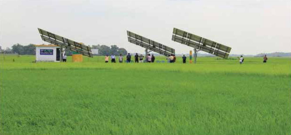 Solar power irrigation pump Bangladesh